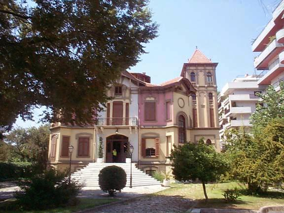 View from outside, image from the National Bank of Greece - Cultural Centre of Northern Greece, Thessaloniki, Central Macedonia, Greece